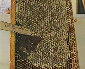 Harvesting of honey: removal of operculum closing honeycomb full of honey on a hive frame.